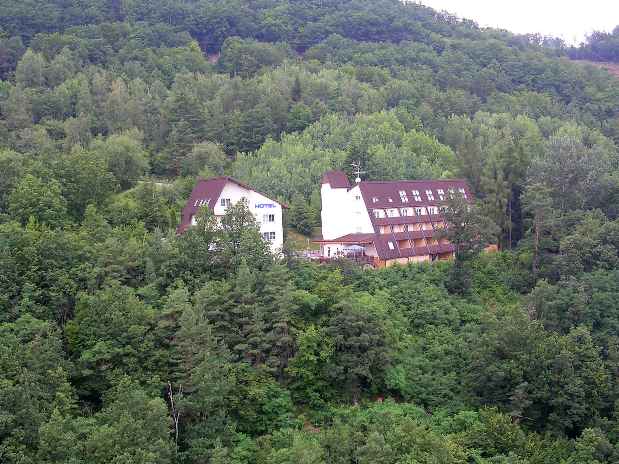 Kostínek Hotel, Bohostice, the Czech Republic.